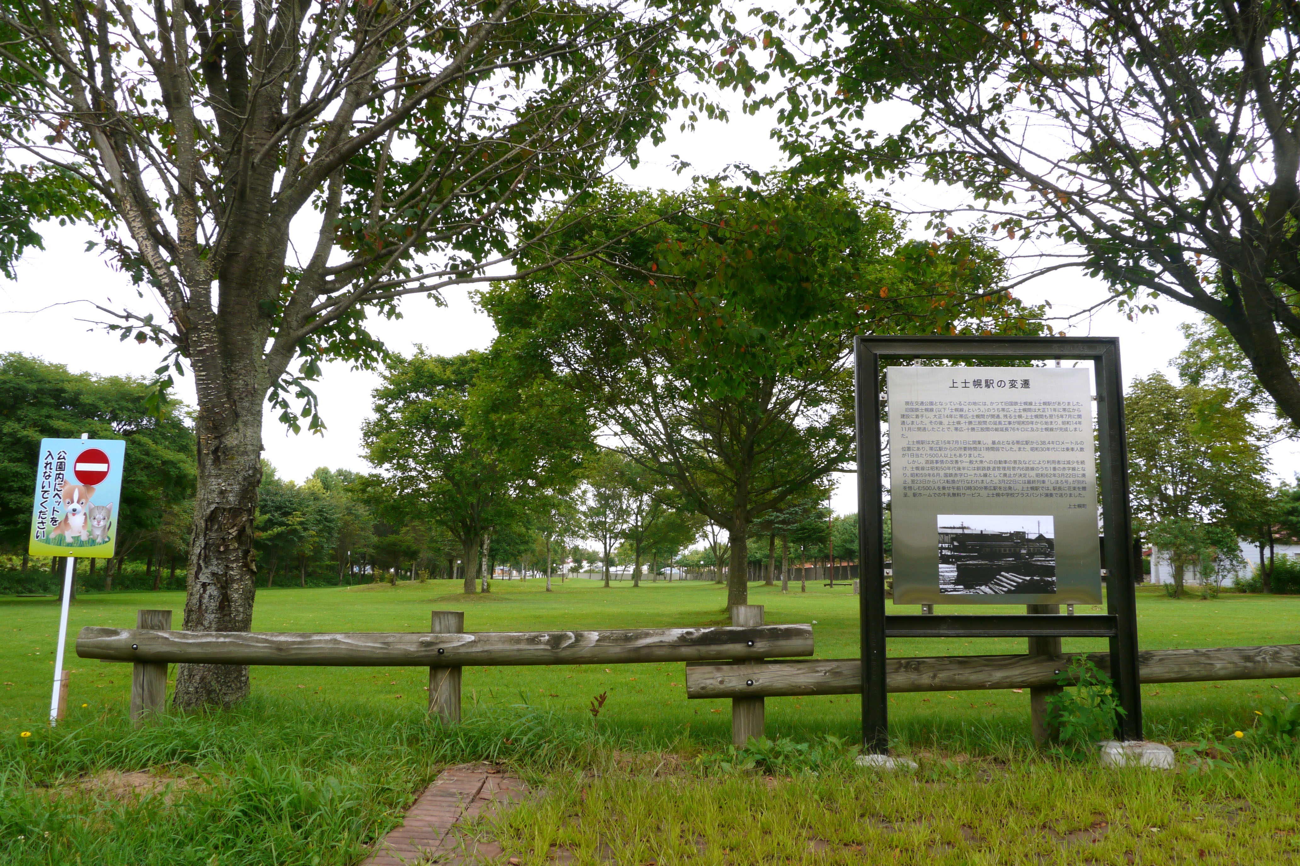 The former location of Kamishihoro Station of the Shihoro Line in Hokkaido, Japan.